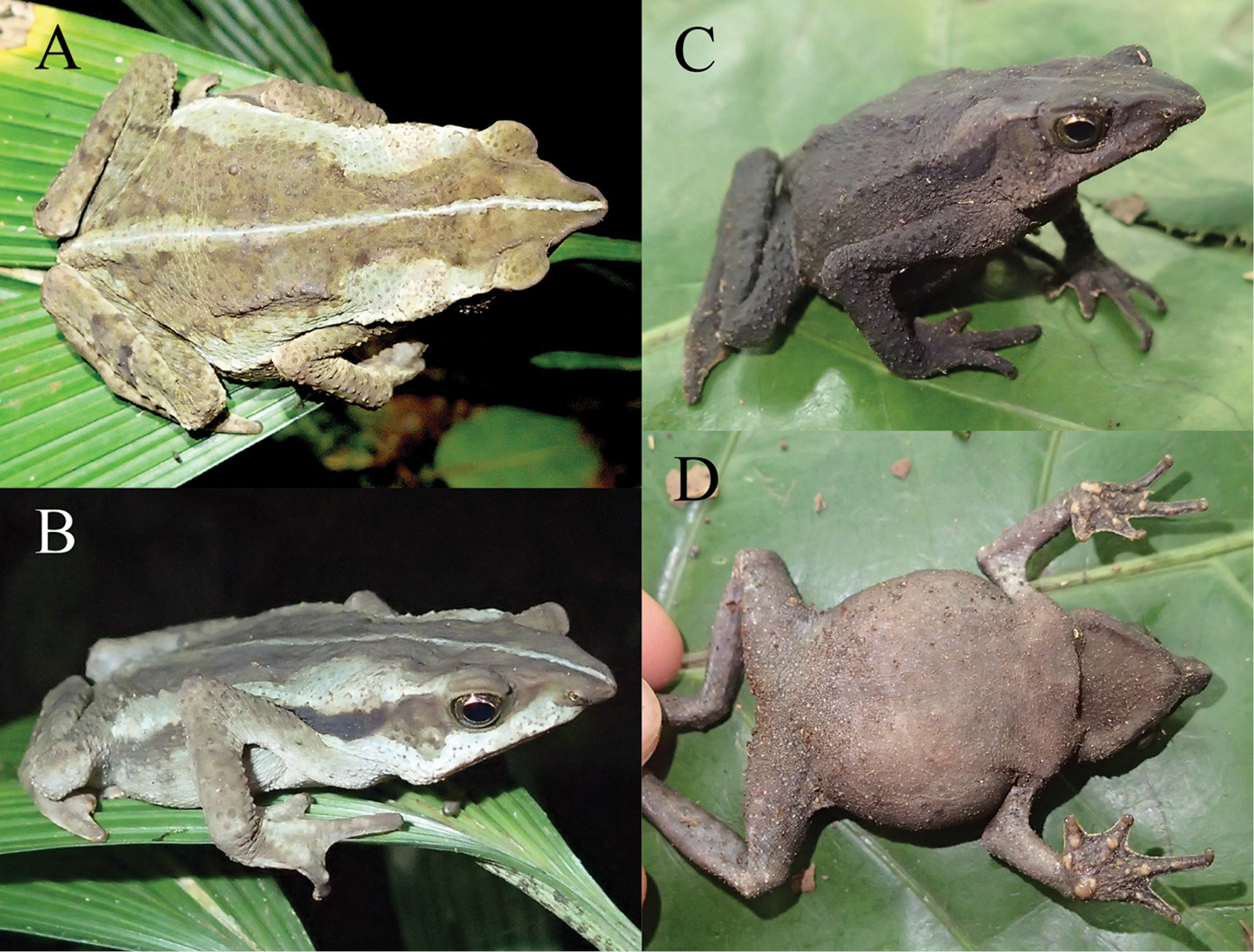 Paratype of Rhinella lilyrodriguezae sp. n. (MUSM 32201, SVL = 57.5 mm) in life. A Dorsal and B laterodorsal views of the coloration at night C Laterodorsal and D ventral views of the coloration during the day. Photos by K. Tasker.